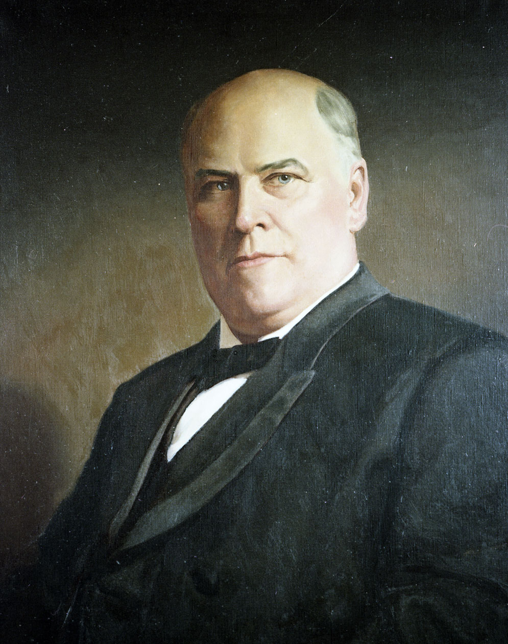 Robert Brodnax Glenn, 1905 - 1909 From the General Negative Collection, State Archives of North Carolina, Raleigh, NC.